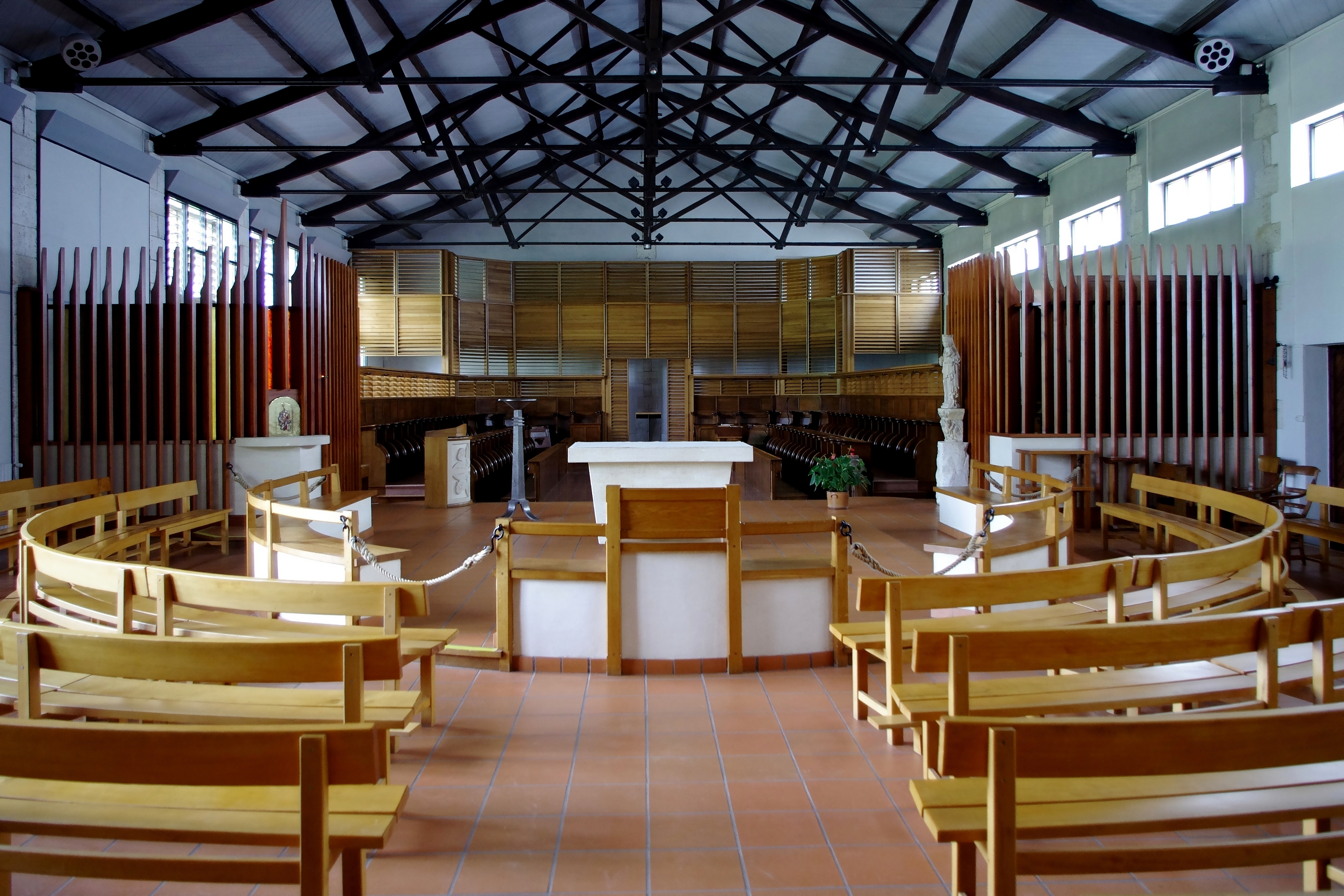 Church of Sainte-Marie de Maumont abbey, Juignac, Charente, France.